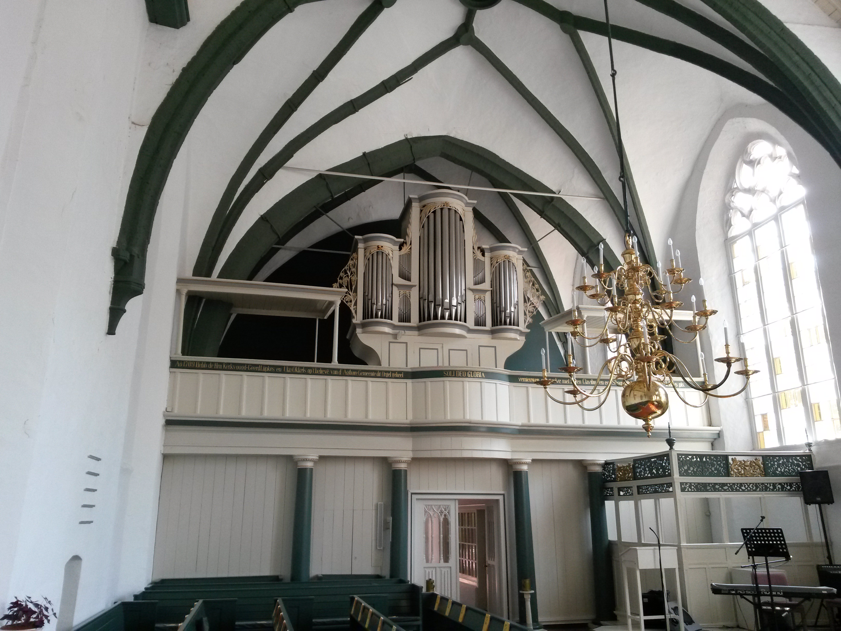 Organ of the church of Larrelt, East Frisia, Germany